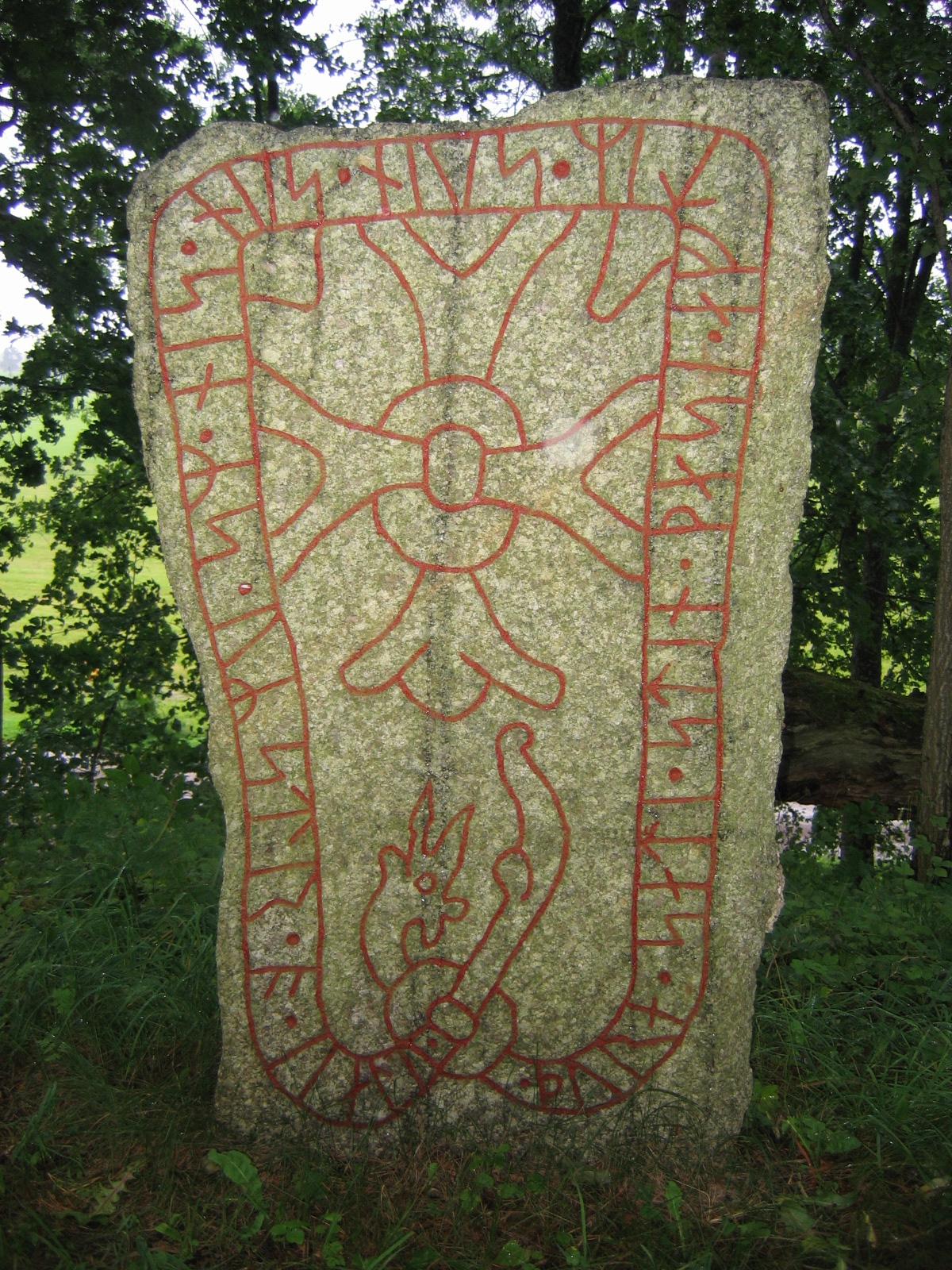 Runestone Ög 83 in Högby, Mjölby municipality, Östergötland.